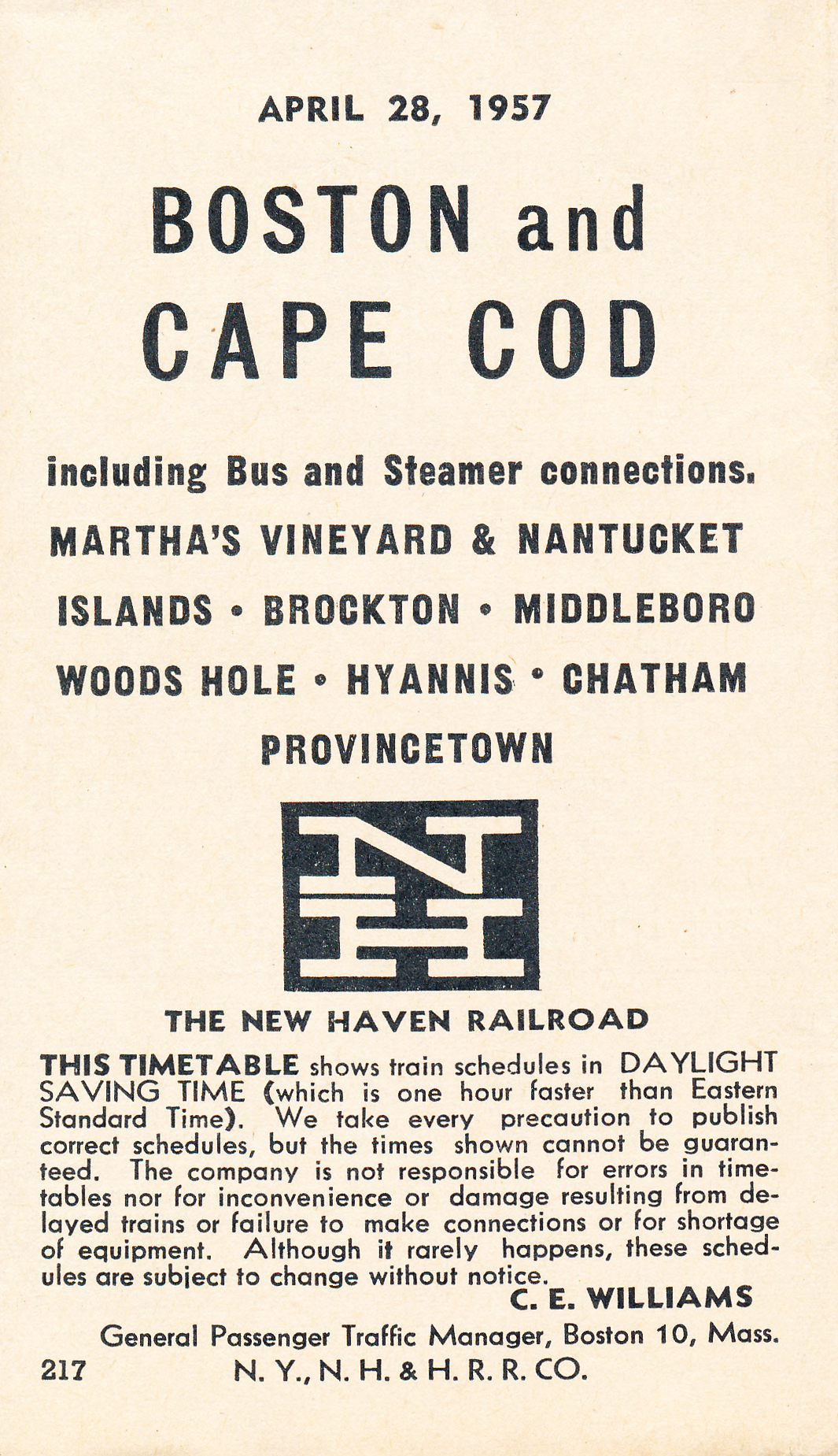 Cover of a New Haven Railroad timetable, dated April 28, 1957, for passenger service between Boston and Cape Cod, Massachusetts